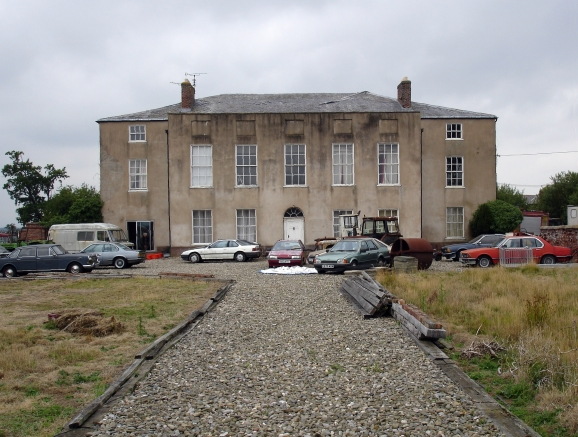 Handley - Calveley Hall. Handley. Calveley Hall from Handley 5. The footpath is obstructed and the hall (a historic building) is in so poor a state of repair that the rear walls are crumbling and slates coming away in patches from the roof. The hall and its yard are filled with a collection of derelict machinery and commercial vehicles from fire engines and ambulances to pumps and mixers. Sic transit ...